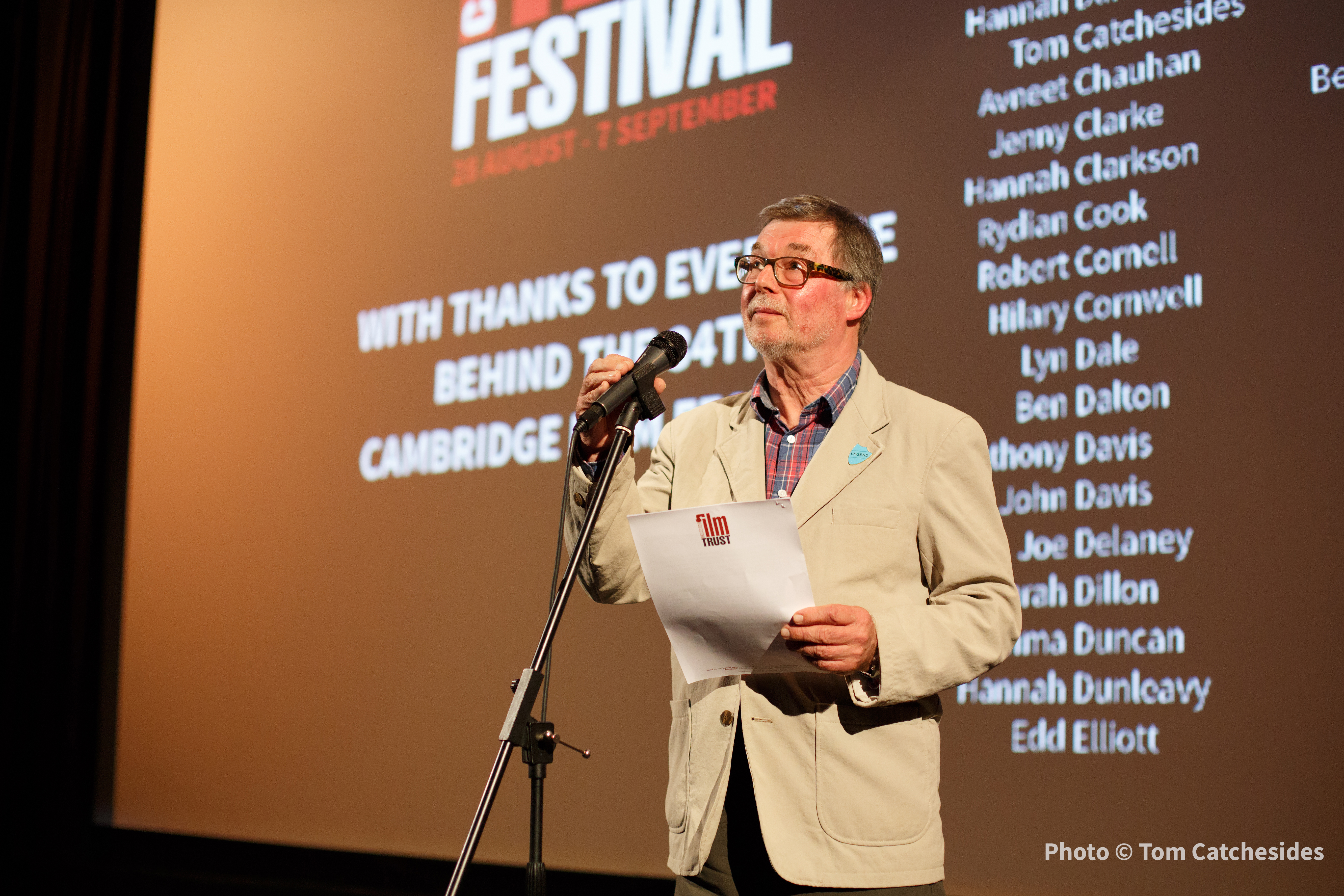 Photo of Tony Jones on the closing night of the Cambridge Film Festival 2014